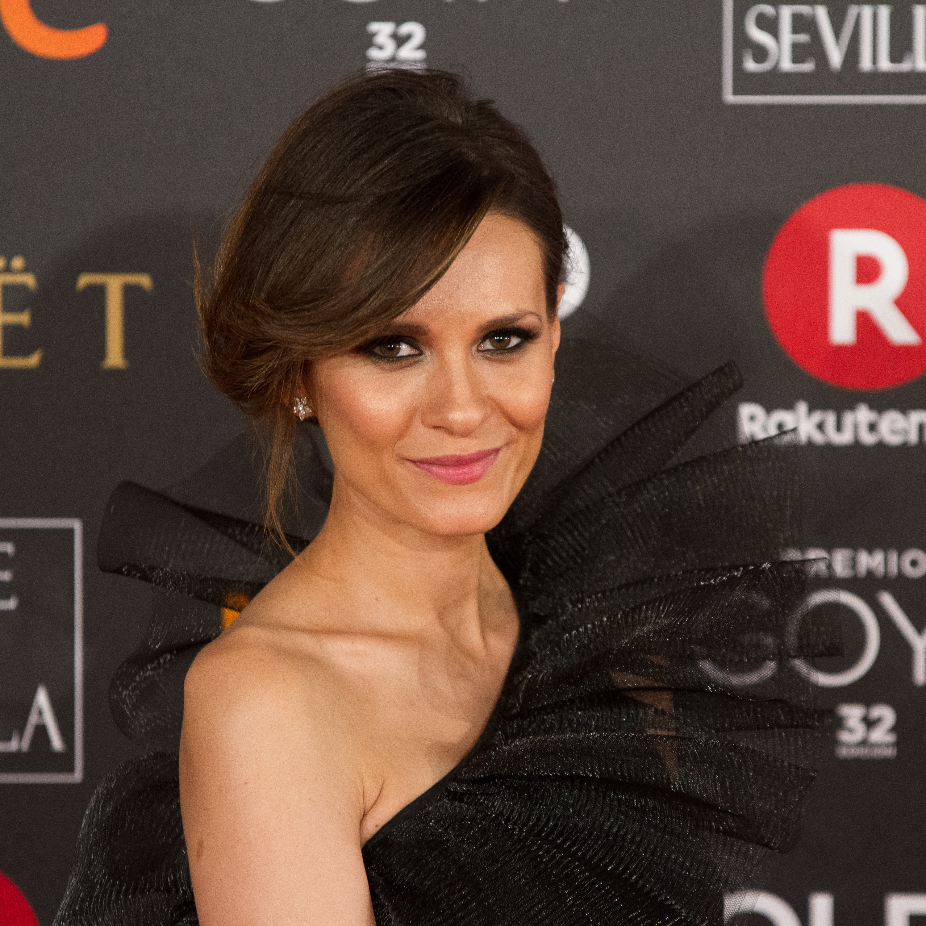 32nd Goya Awards, 2018.